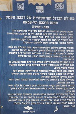 hisroric railway station, kefar joshua, israel